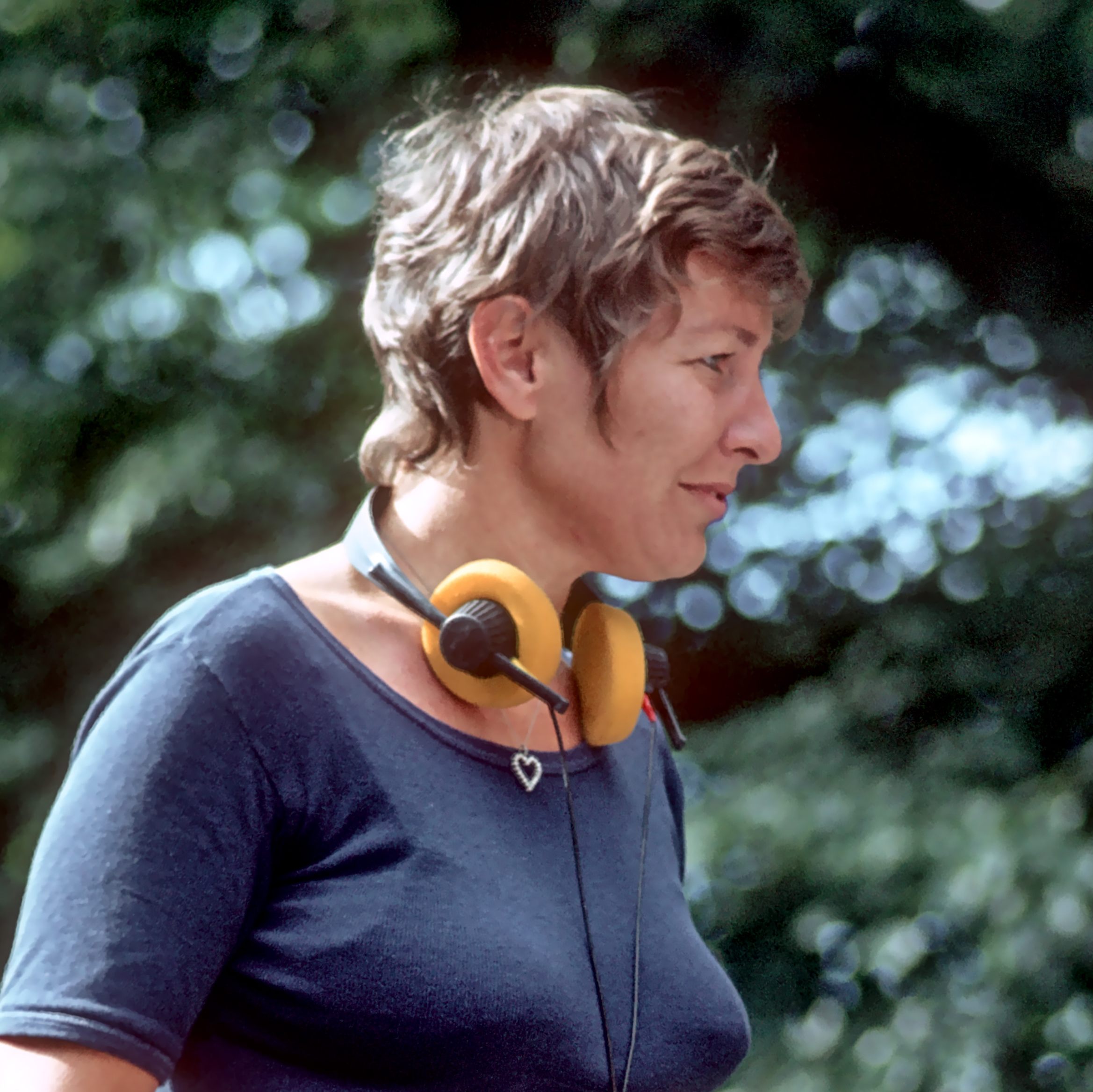 Carmen Thomas in Hallo "Ü-Wagen" 1982 in Bad Oeynhausen.